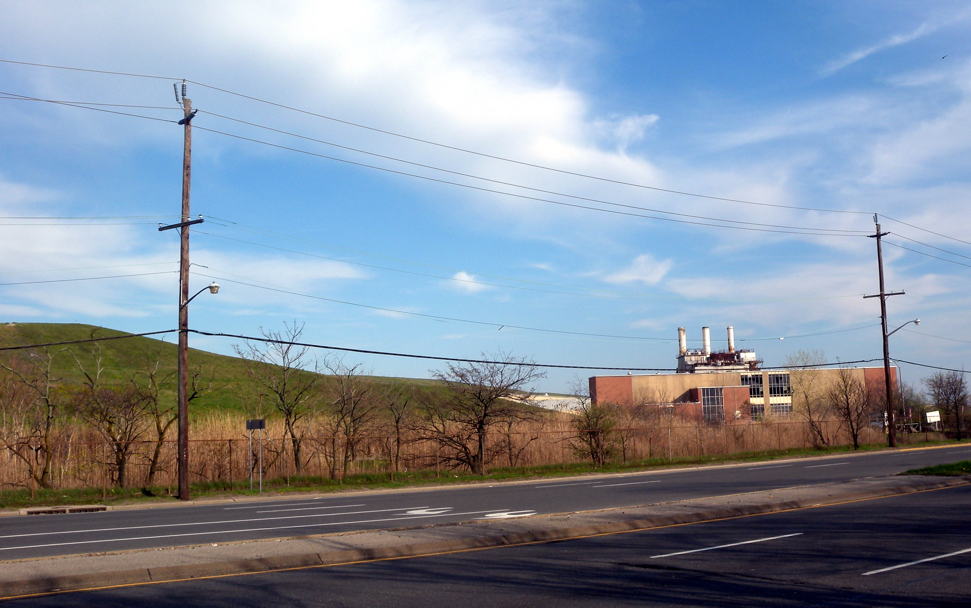 Looking east across Long Beach Road at former dump on a mostly sunny afternoon.